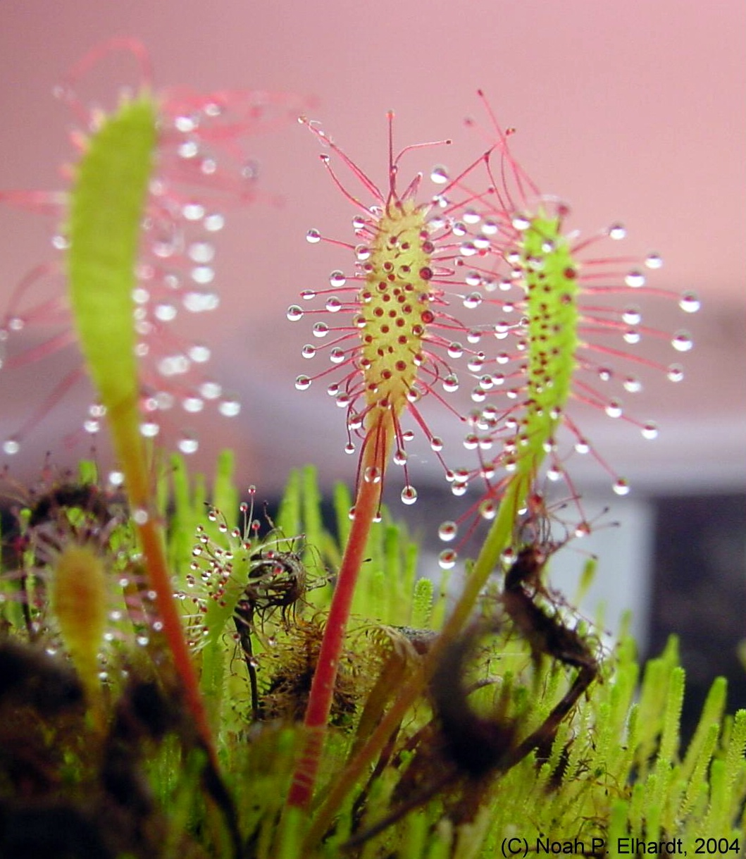 Description: D. anglica form from Kaua'i, HI Photo taken by: Noah Elhardt